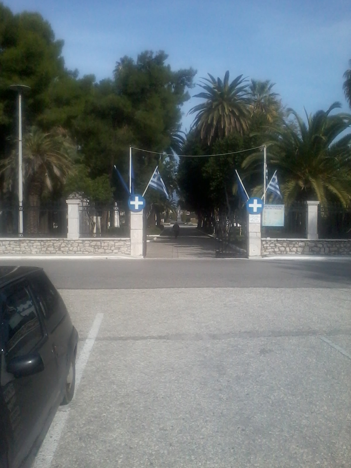 Entrance of Garden of Heroes, Missolonghi (Greece)